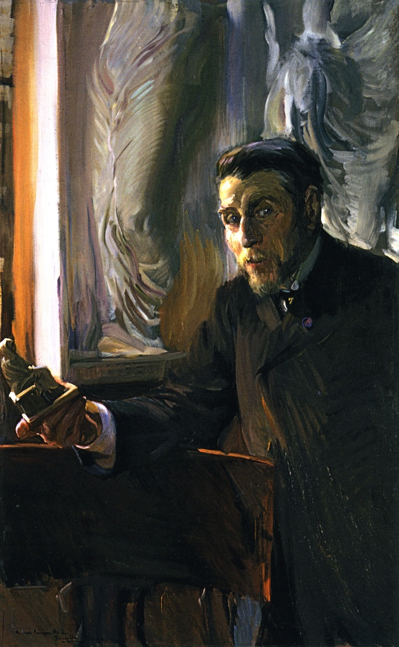 José Ramón Mélida y Alinari.